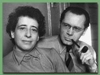 Hannah and Heinrich Blücher in New York, ca. 1950